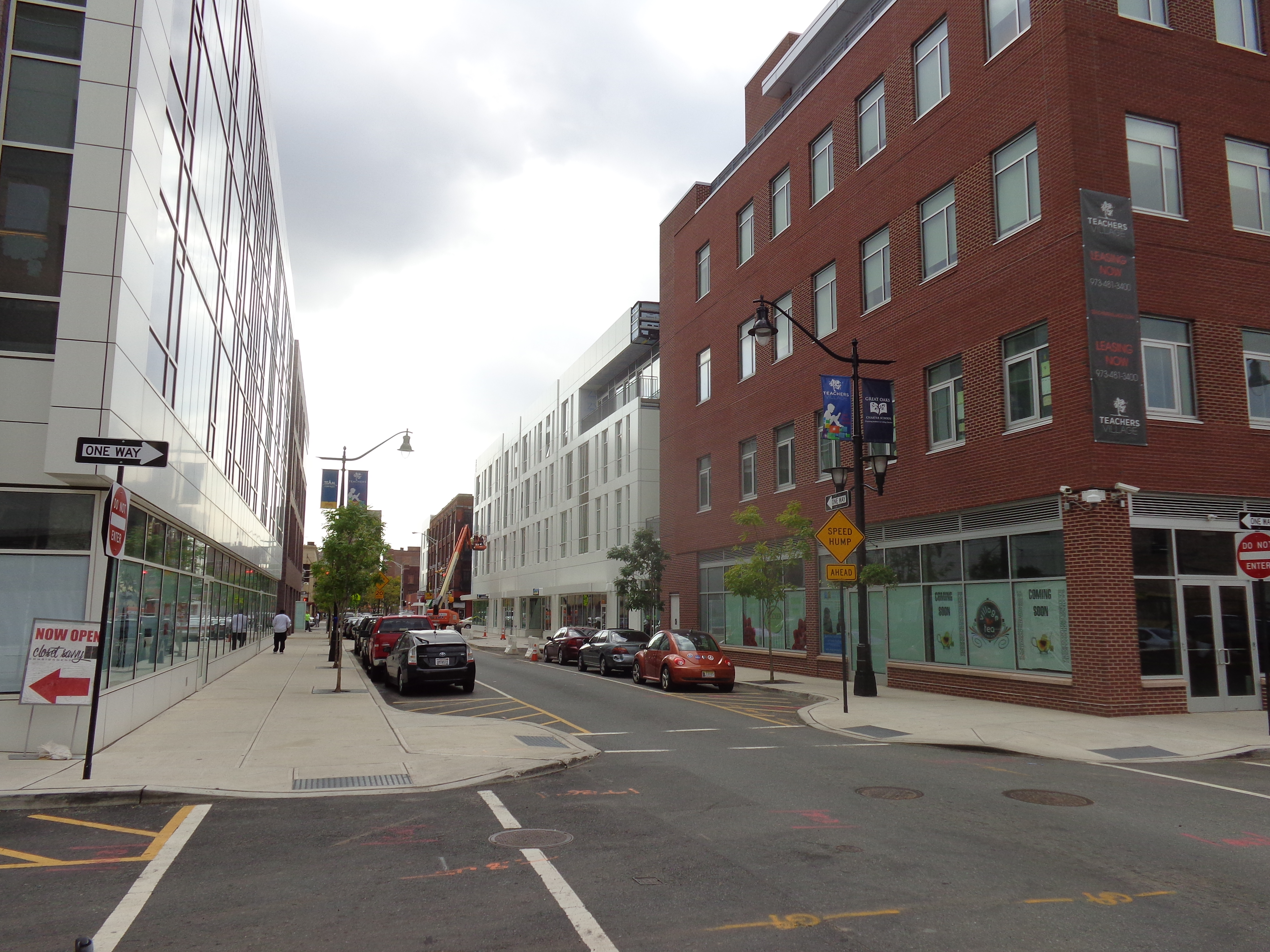 HalseySt TeachersVillage Newark looking south